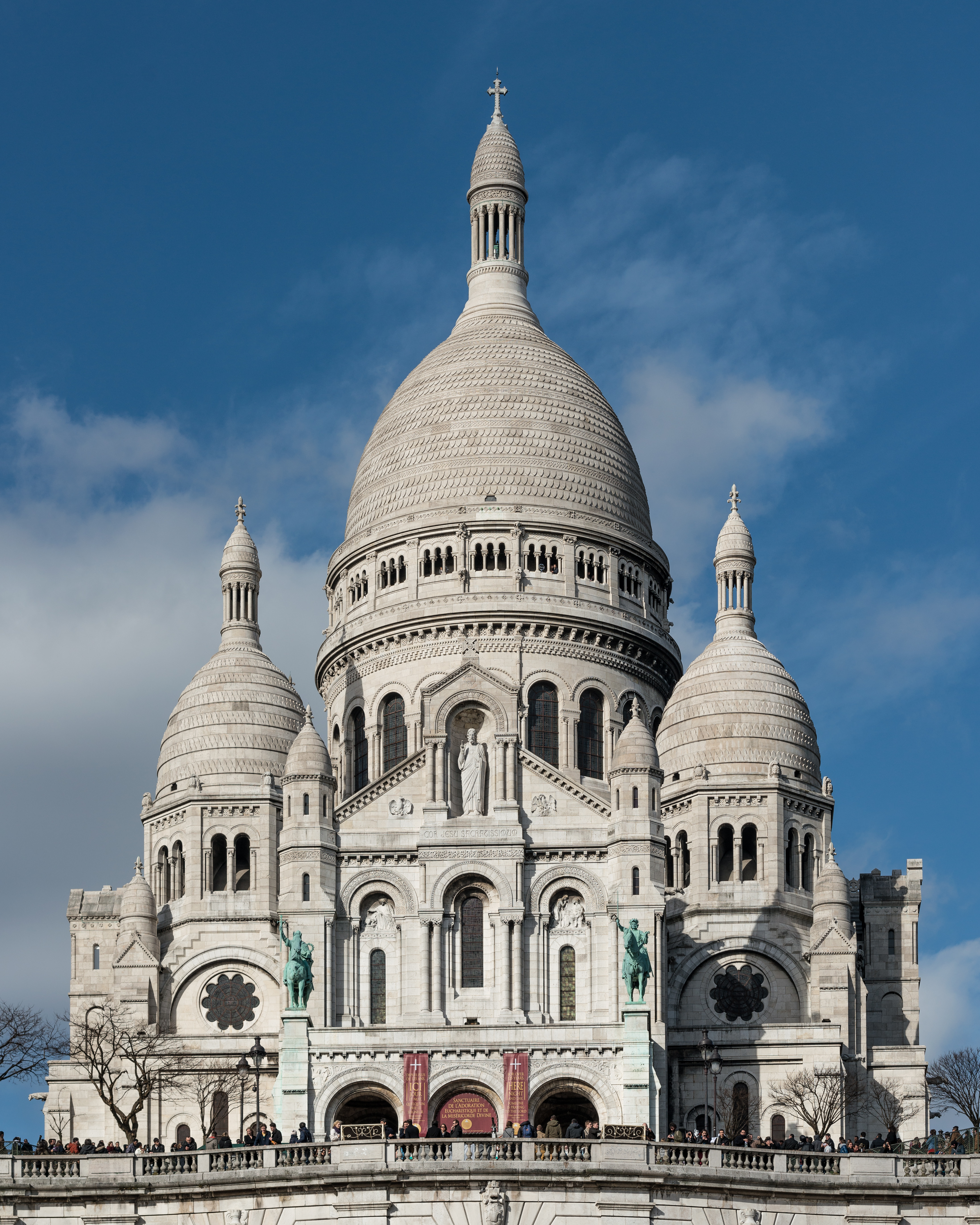 The Basilique du Sacré-Cœur de Montmartre as seen from the Square Louise-Michel